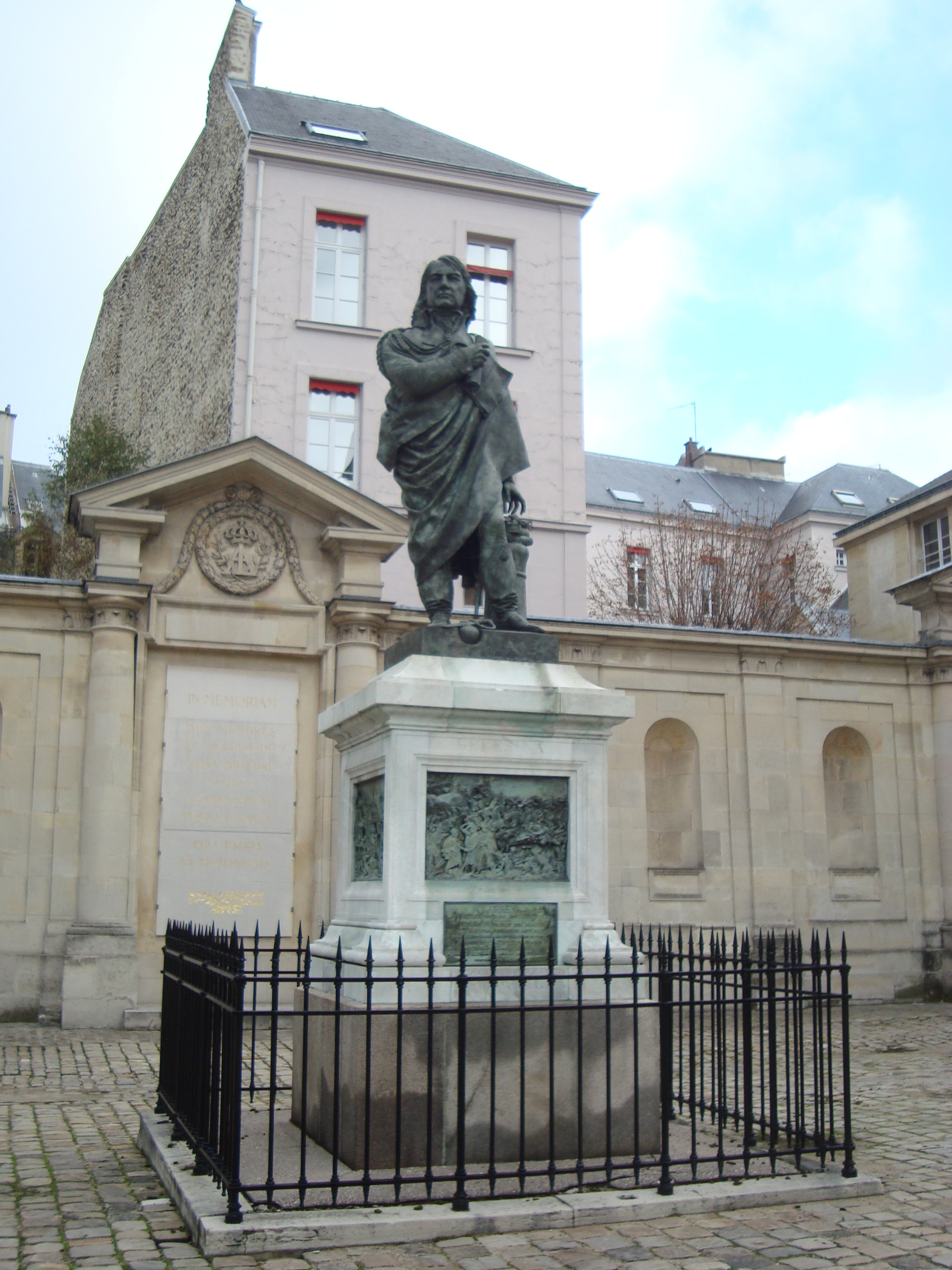 Statue of Dominique-Jean Larrey in the Val-de-Grâce in Paris